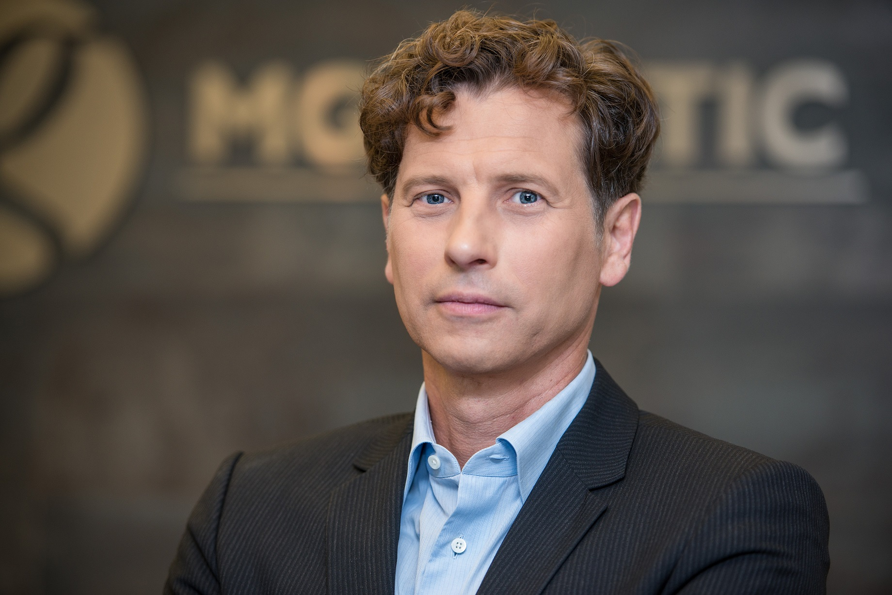 Darius Mockus President of MG Baltic